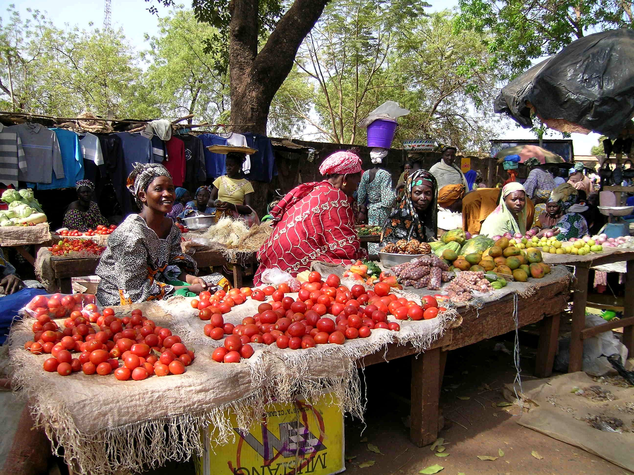 Women merchants sell Tomatoes, fruit, nuts, used clothing in stalls and on tables at the Sikasso Market, February 2008.